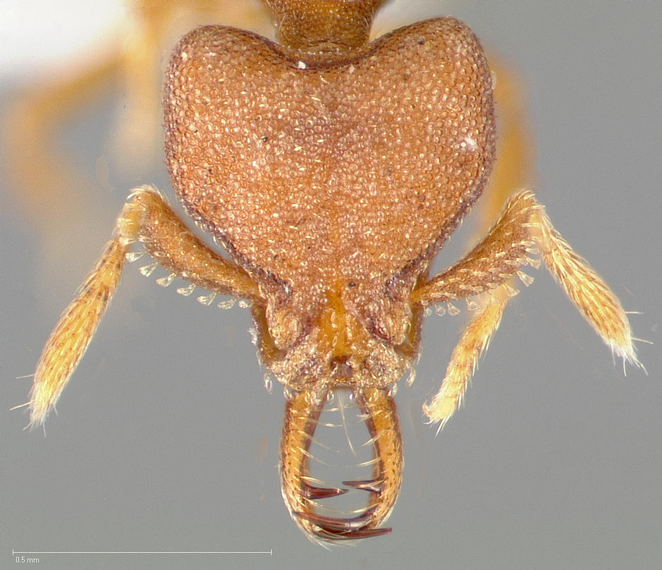 Head view of ant Strumigenys abdera specimen casent0005466.